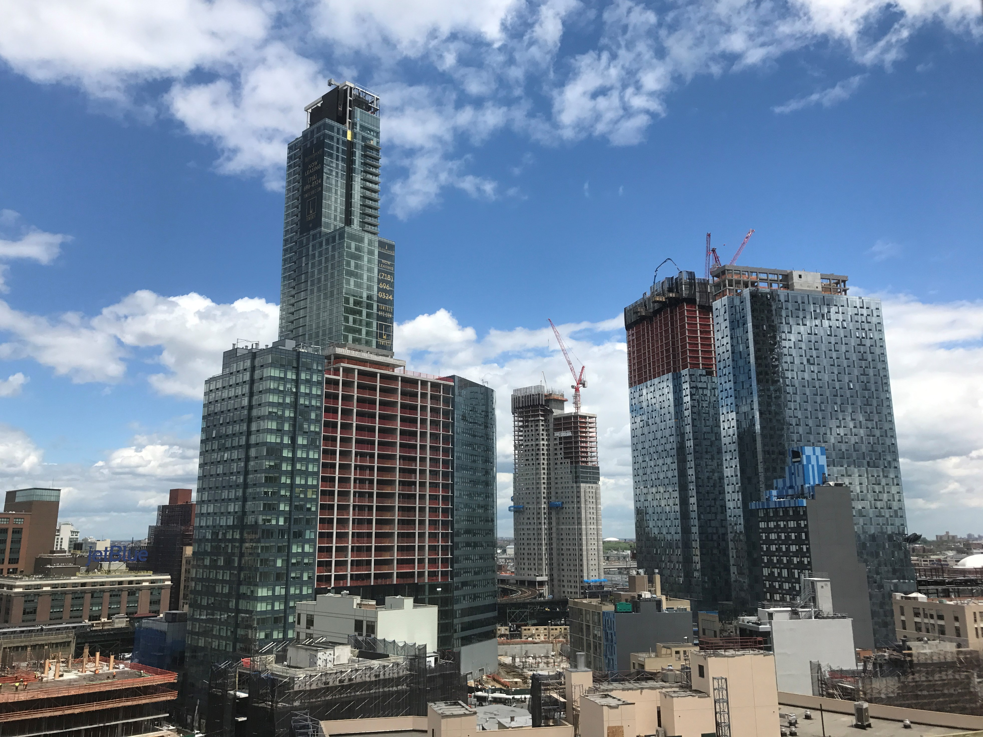 Photo of skyline of Queens Plaza on May 26, 2017